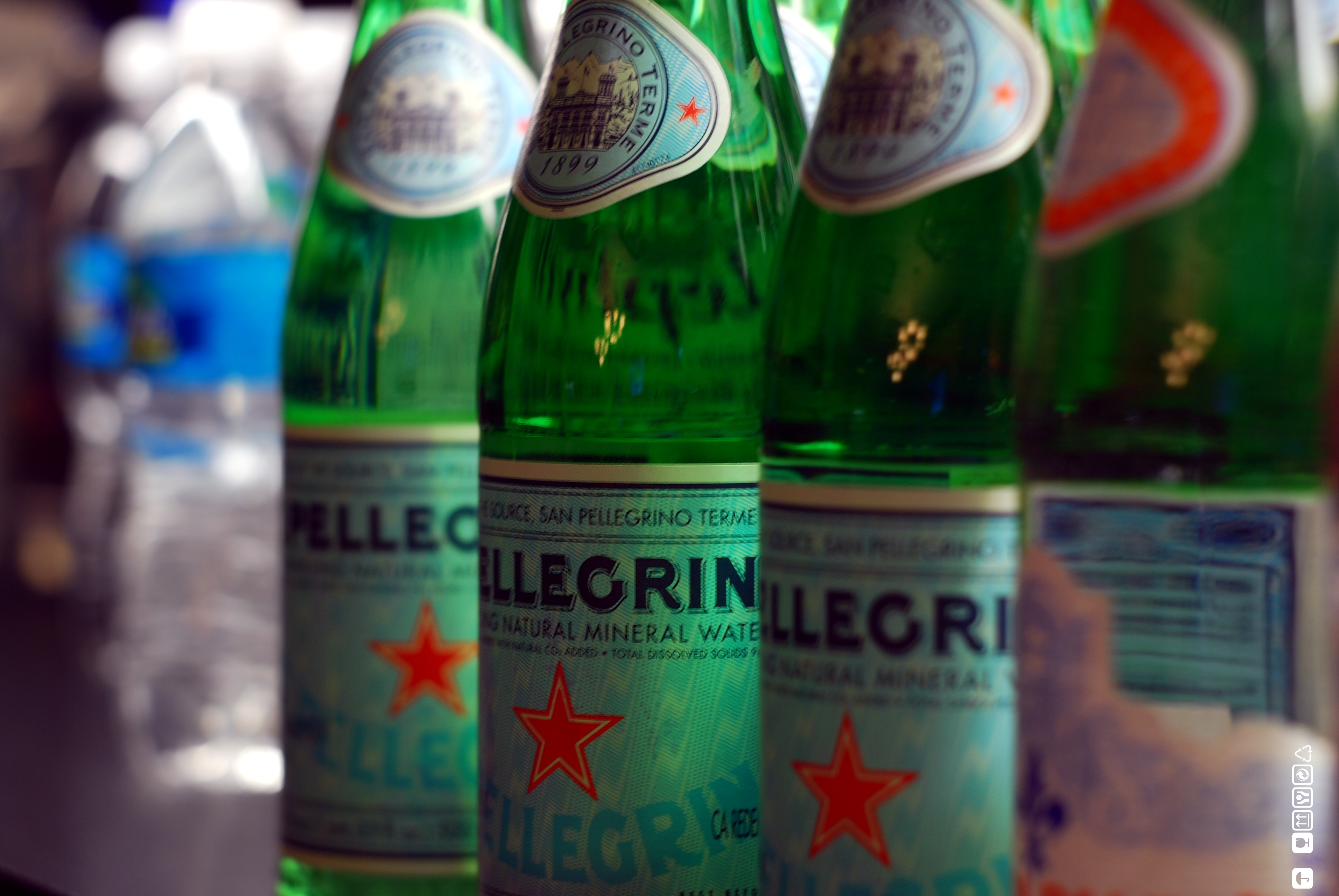 San Pellegrino. (I should explain. Today, I just tested a new (old) lens. Result interesting. This is the old lens, made back in the USSR. However, the result I like. I think to use it more often, along with a Nikon D60.)